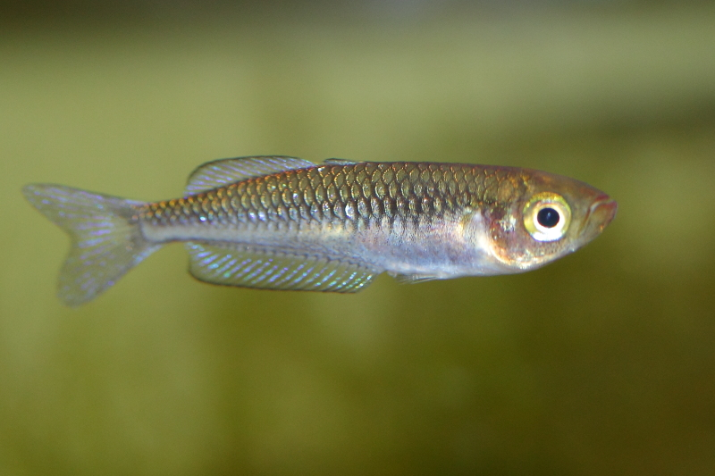 Rhadinocentrus ornatus from Searys Creek, southeast Queensland, Australia. Female in aquarium.